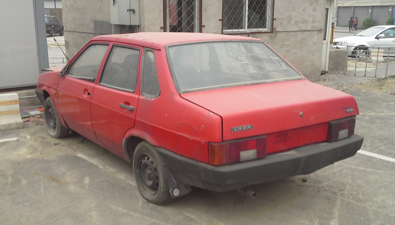 Lada Samara sedan photographed in Beijing, China.